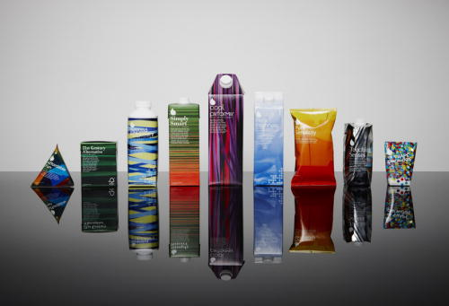 Tetra Pak product family overview (2010), with generic display design called "Nature's Paper". Products shown in the picture, from the left: Tetra Classic Aseptic, Tetra Recart, Tetra Top, Tetra Brik Aseptic, Tetra Gemina Aseptic, Tetra Rex, Tetra Fino Aseptic, Tetra Prisma Aseptic and Tetra Wedge Aseptic.